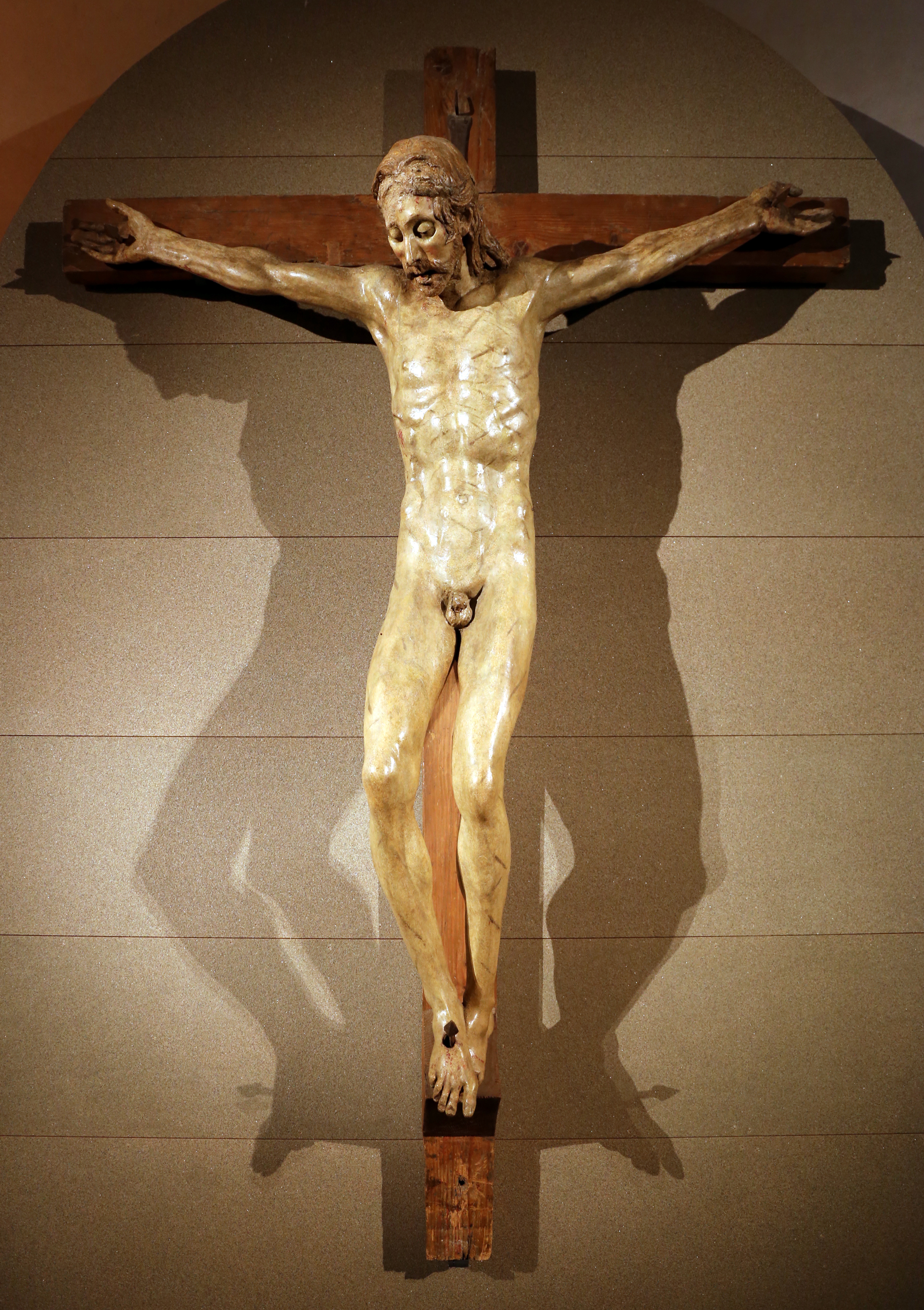 Museo dell'Opera Sacra (Bosco ai Frati convent)